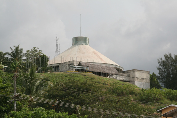 The House of Parliament of Solomon Islands in Honiara, Guadalcanal.